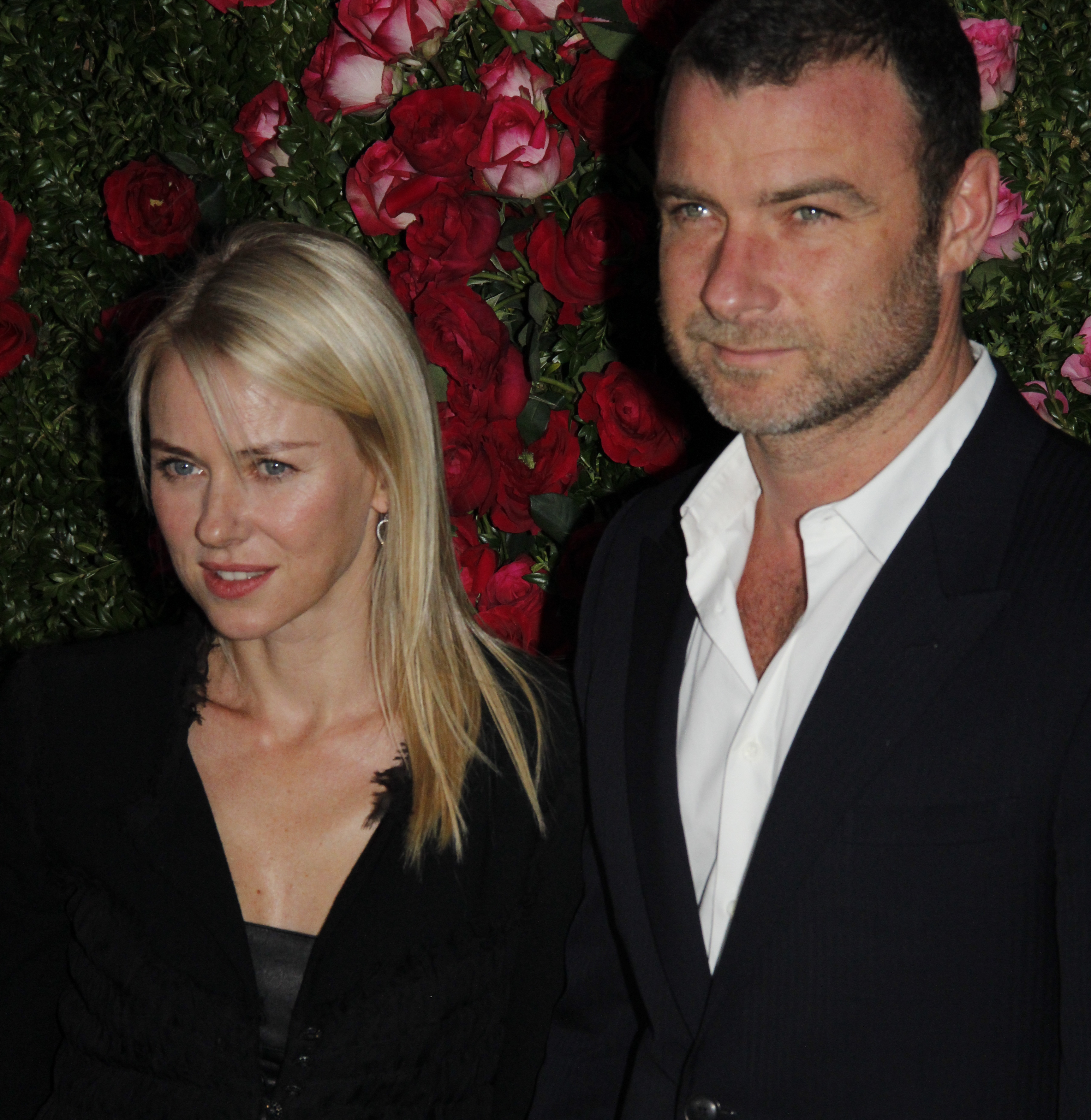 Naomi Watts & Liev Schreiber at the 7th Annual Chanel Tribeca Film Festival Artists Dinner 2012.